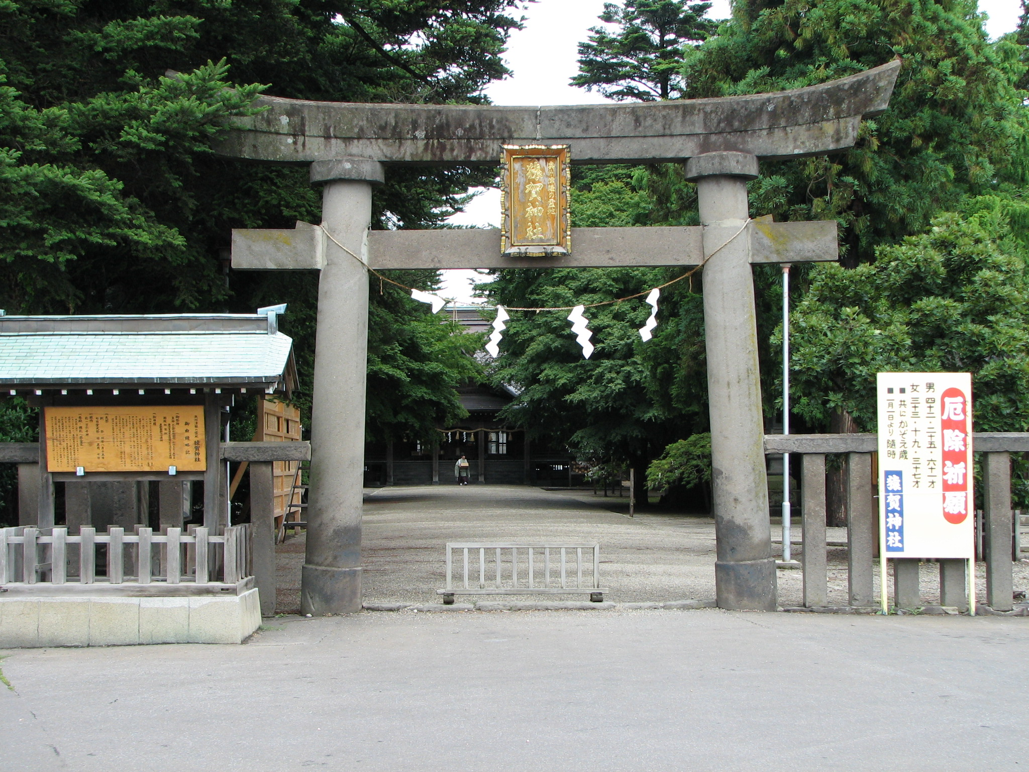 the torii of Saruga Shrine, Hirakawa, Aomori, Japan 猿賀神社鳥居（青森県平川市）